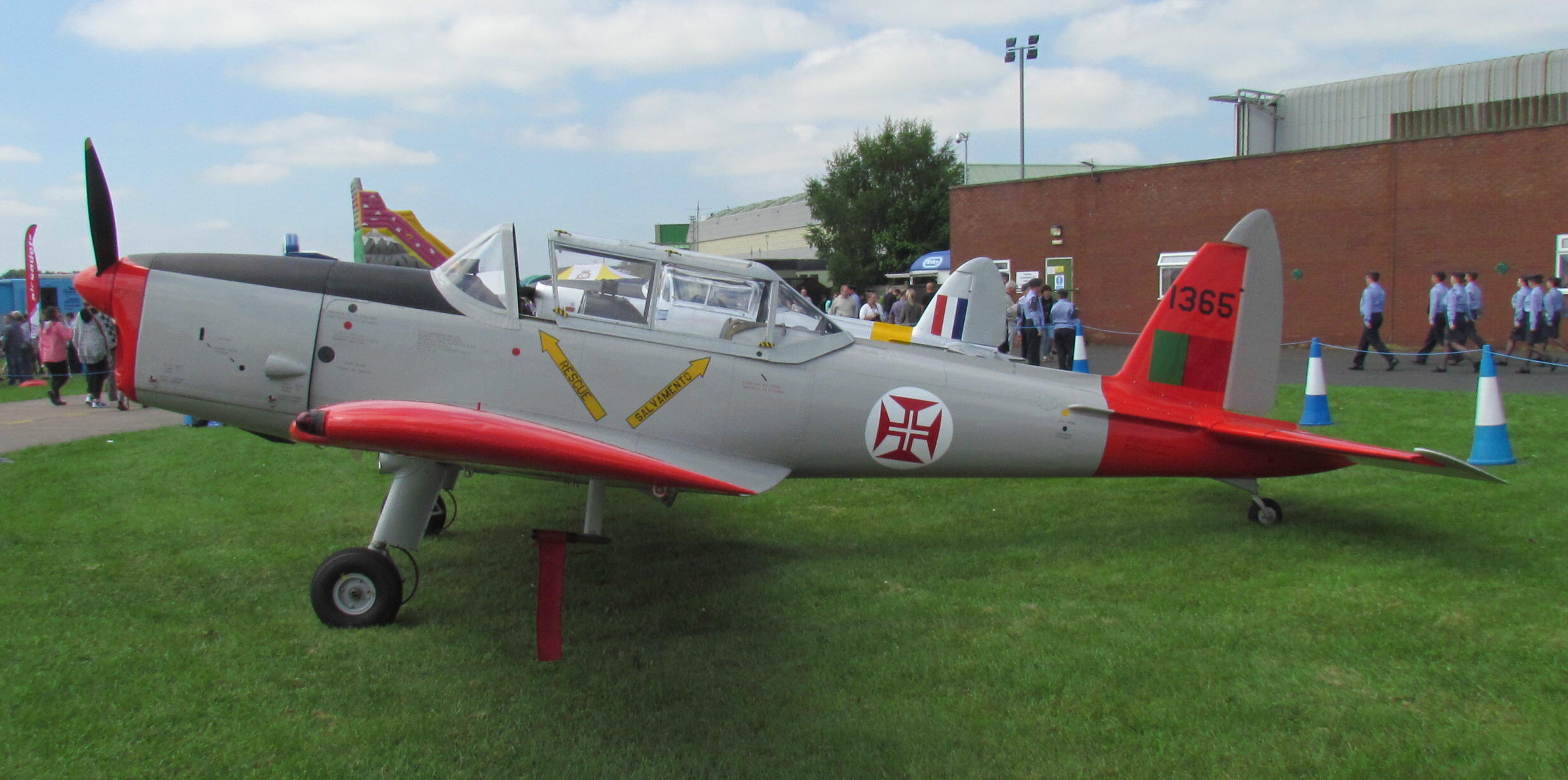 1365 RAF Cosford Airshow 2013